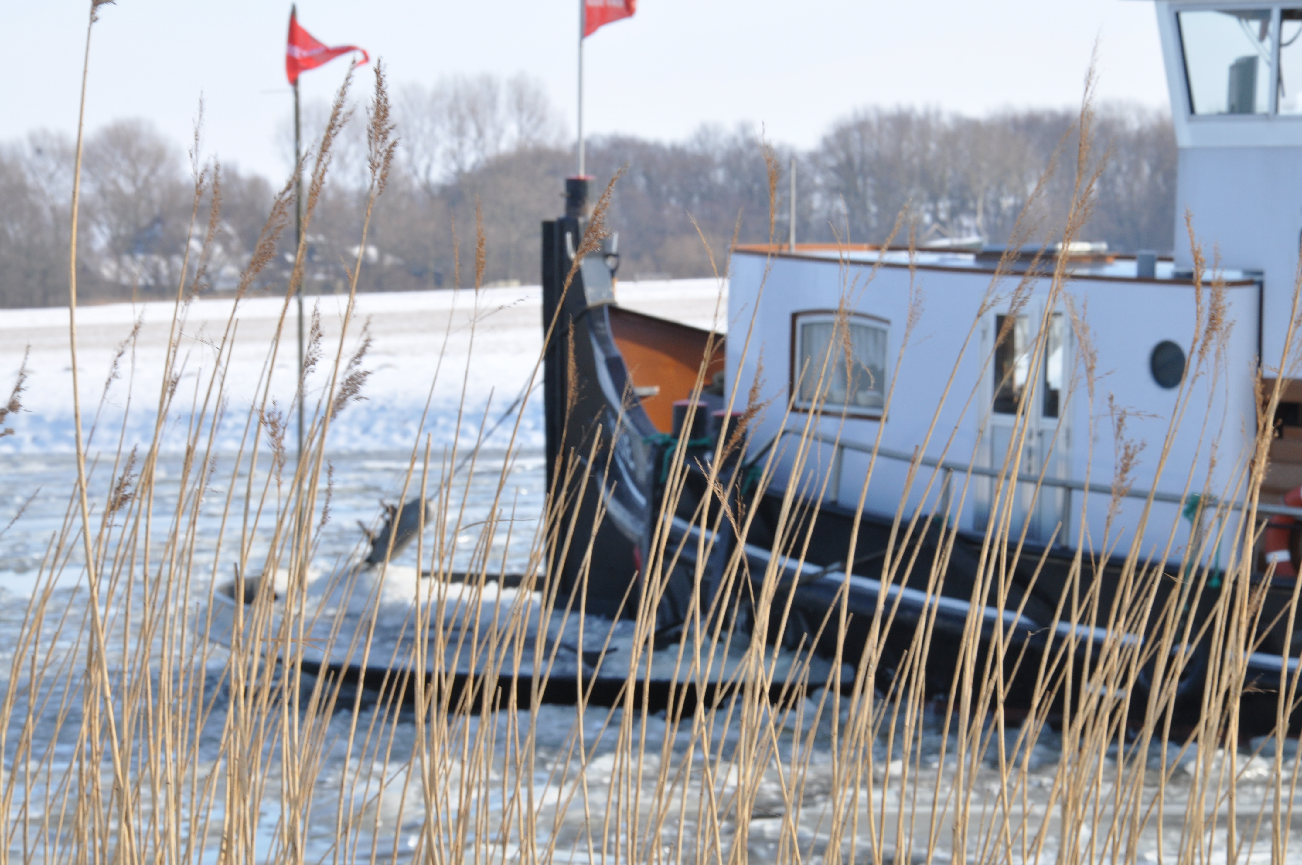 Ice breaker at the Noordhollanda kanaal near Den Helder. It sailed with another ice breaeker to make way for a tanker.